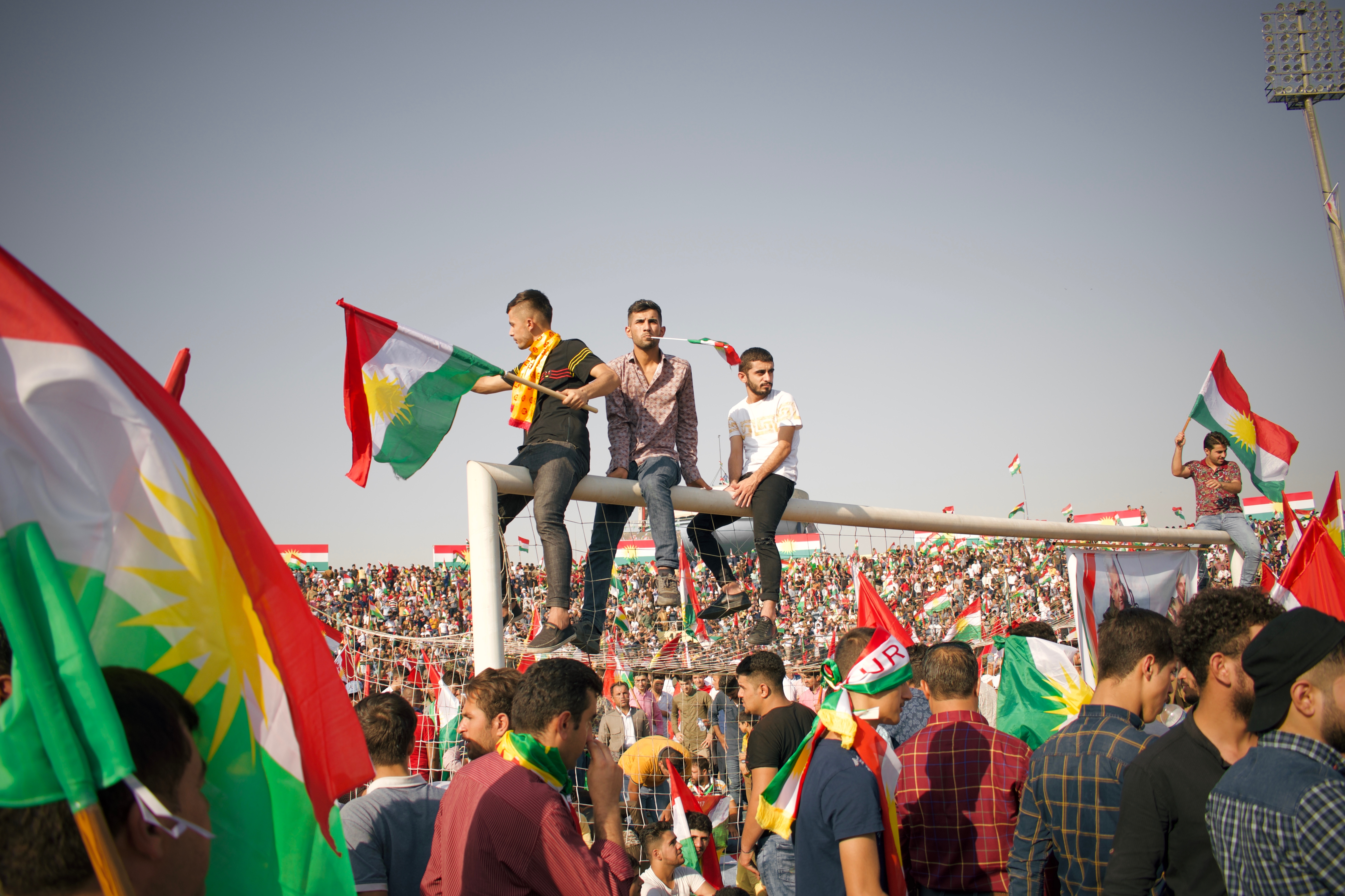 Pro-Kurdistan referendum and pro-Kurdistan independence rally at Franso Hariri Stadiu, Erbil, Kurdistan Region of Iraq.